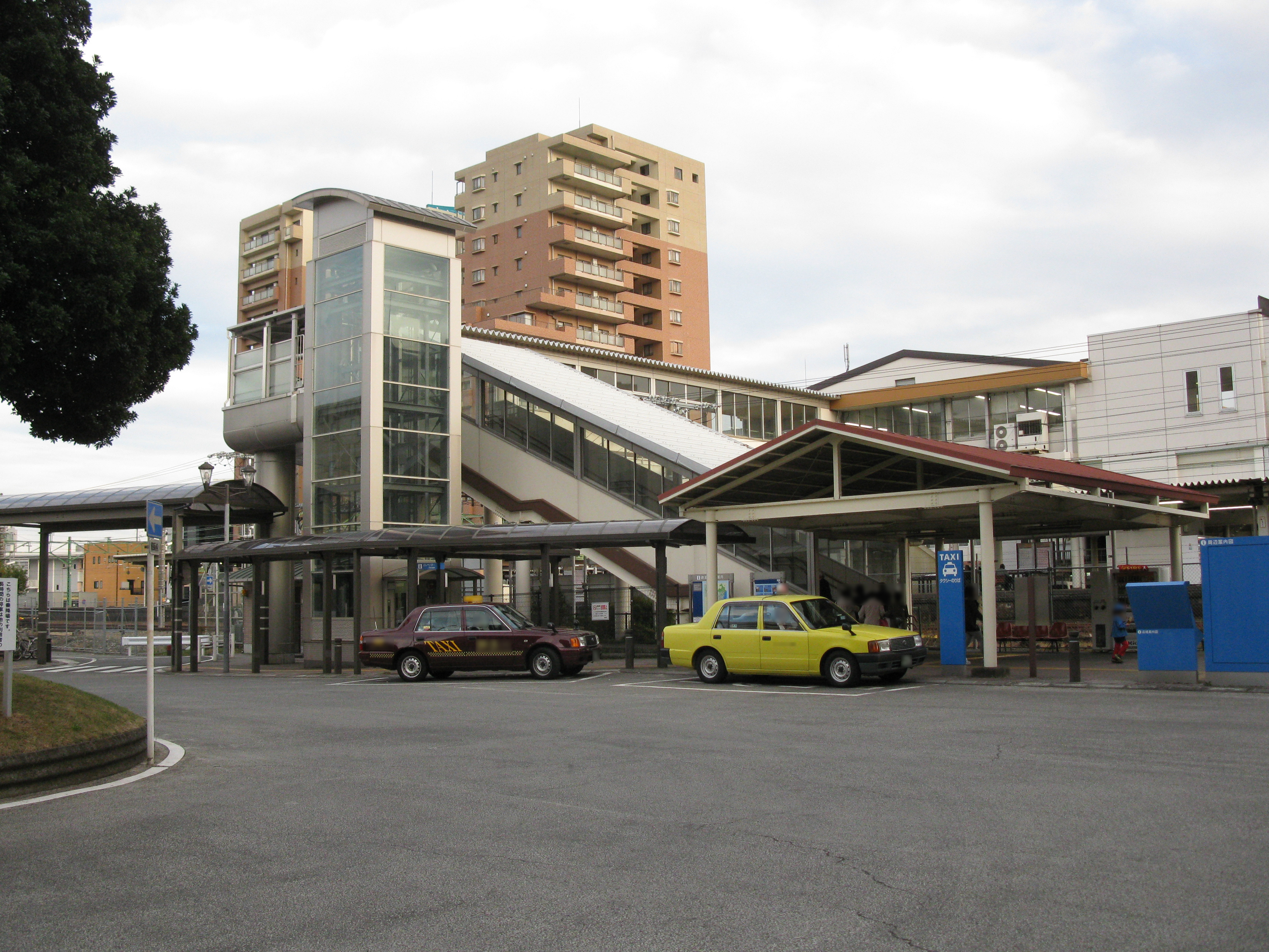 Yaizu Station north entrance (Central Japan Railway(JR Central) Tōkaidō Main Line)